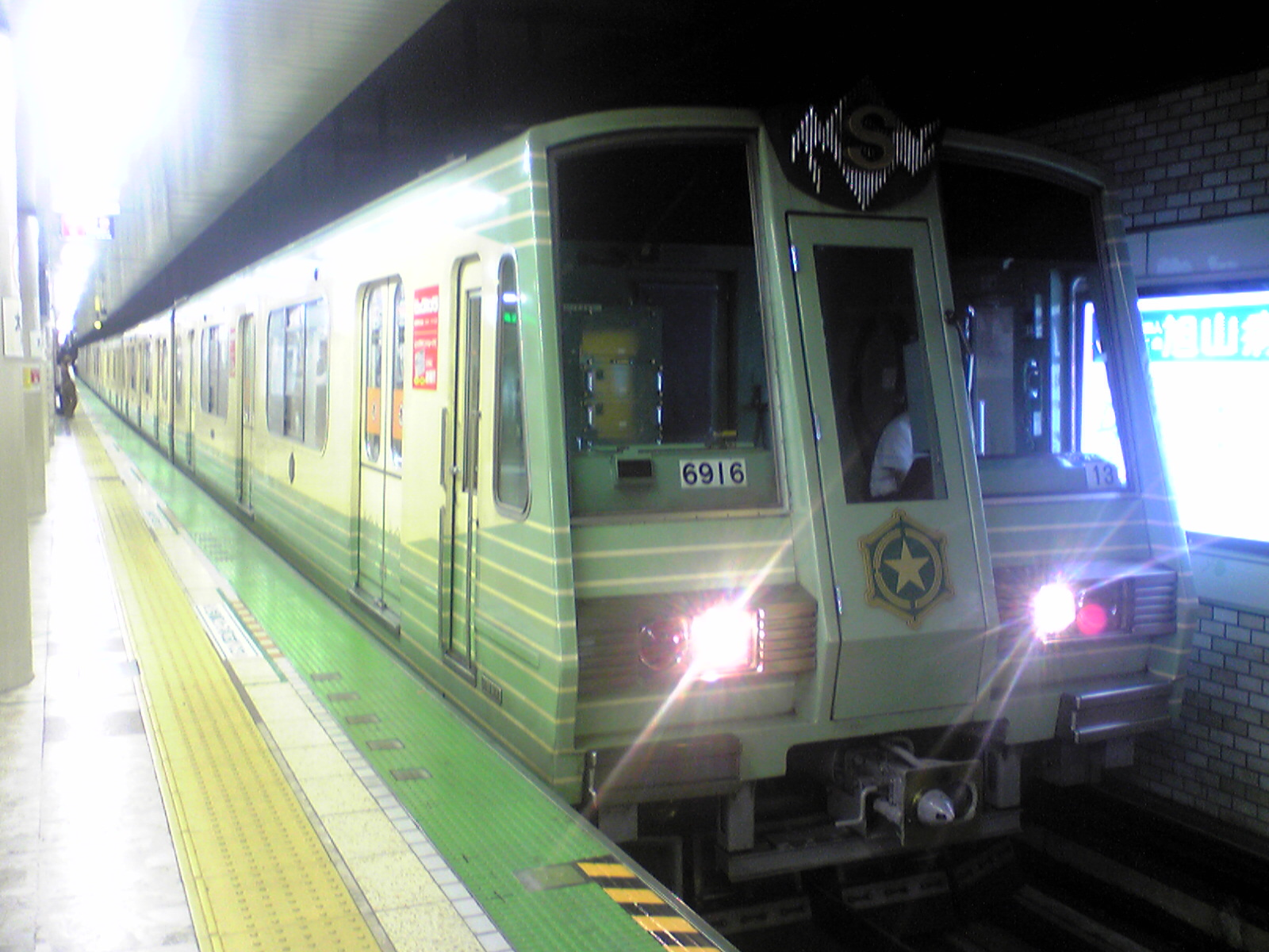 6916 at Odori Station on the Sapporo City Subway Tozai Line